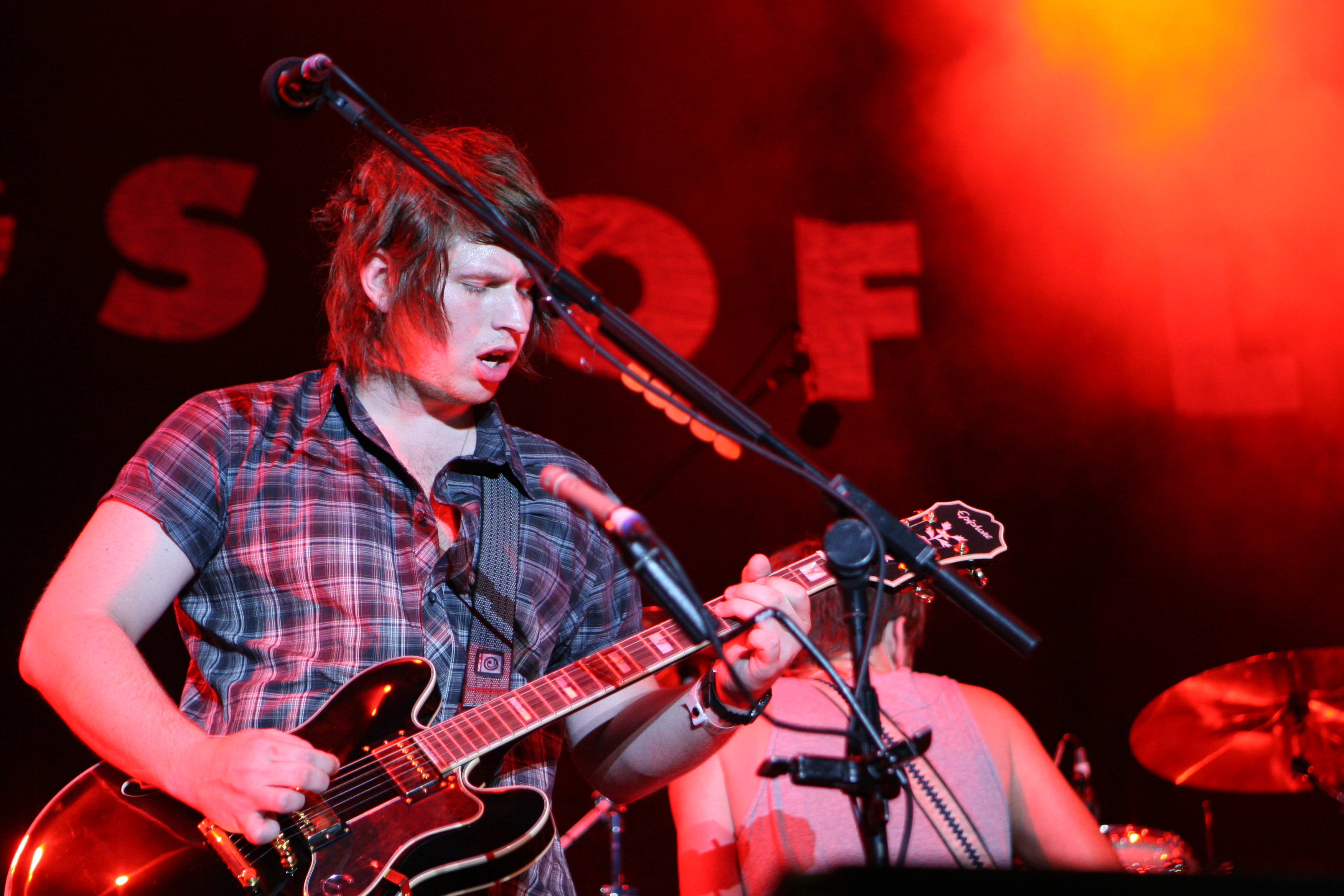 Matthew Followill (Kings of Leon)